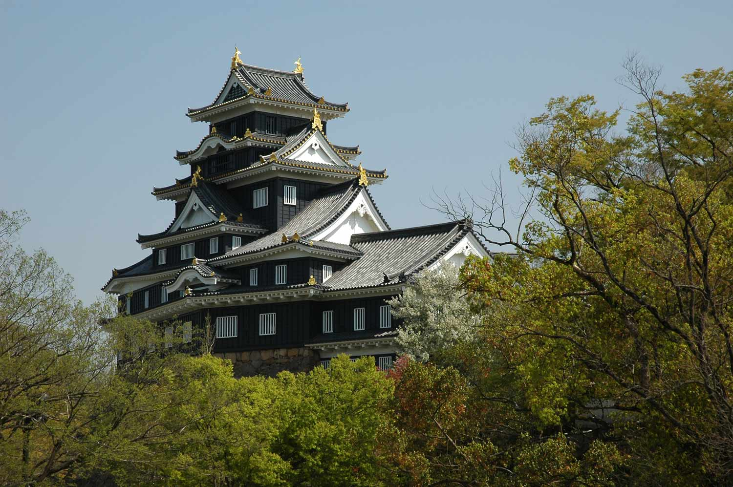 photo of Okayama Castle